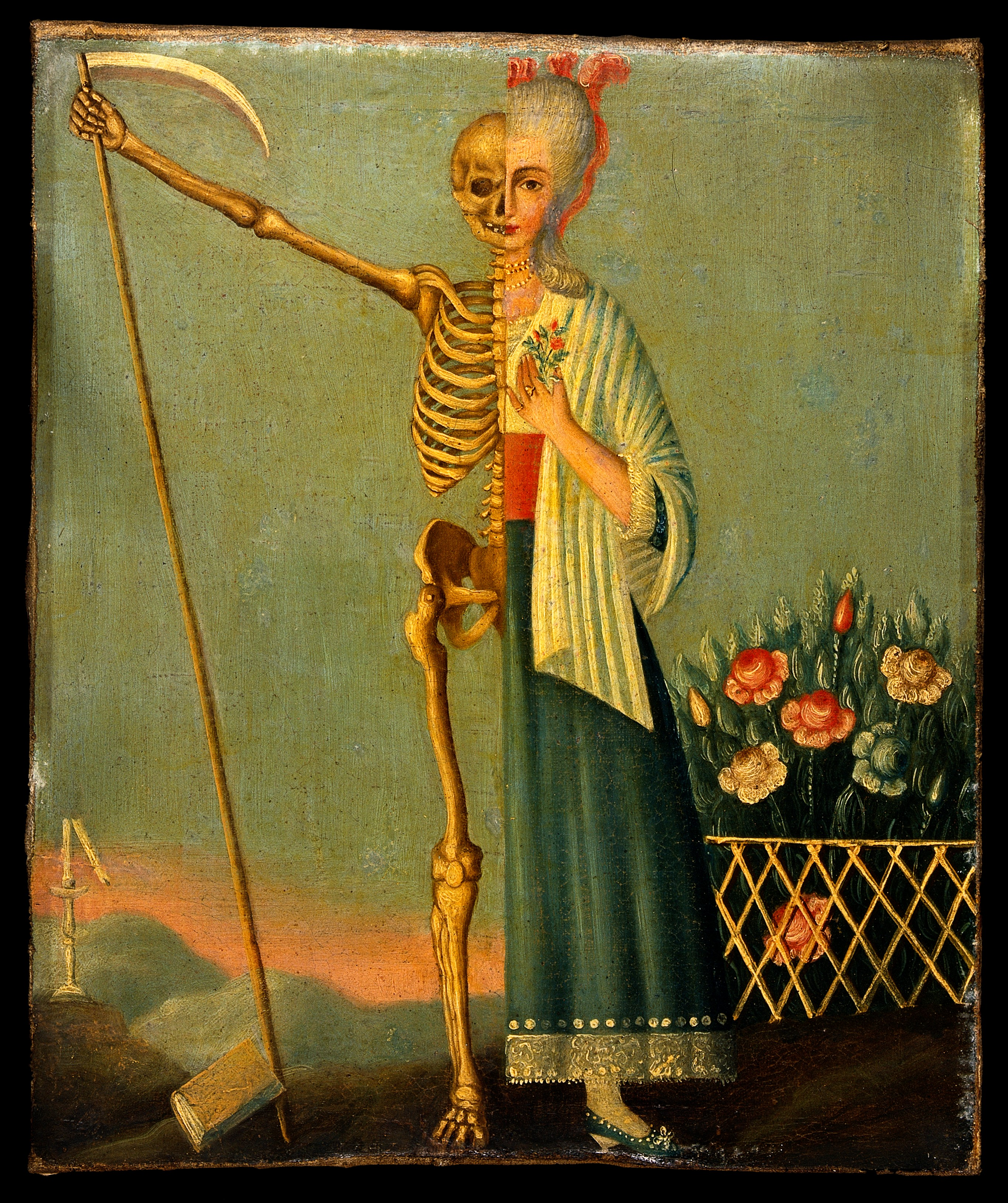 Life and death. Oil painting. Iconographic Collections Keywords: Death; Scythe; Woman; Skeleton